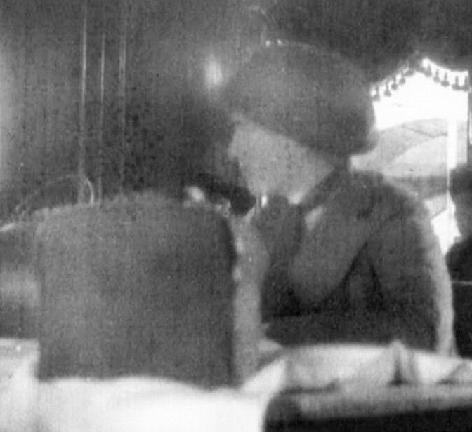 This photograph of Grand Duchess Anastasia Nikolaevna of Russia aboard the Russia in May 1918 is from a posting at . I'm not sure where it originally came from. Because of its age, I think it's likely in the public domain, but if it isn't, please remove it immediately.